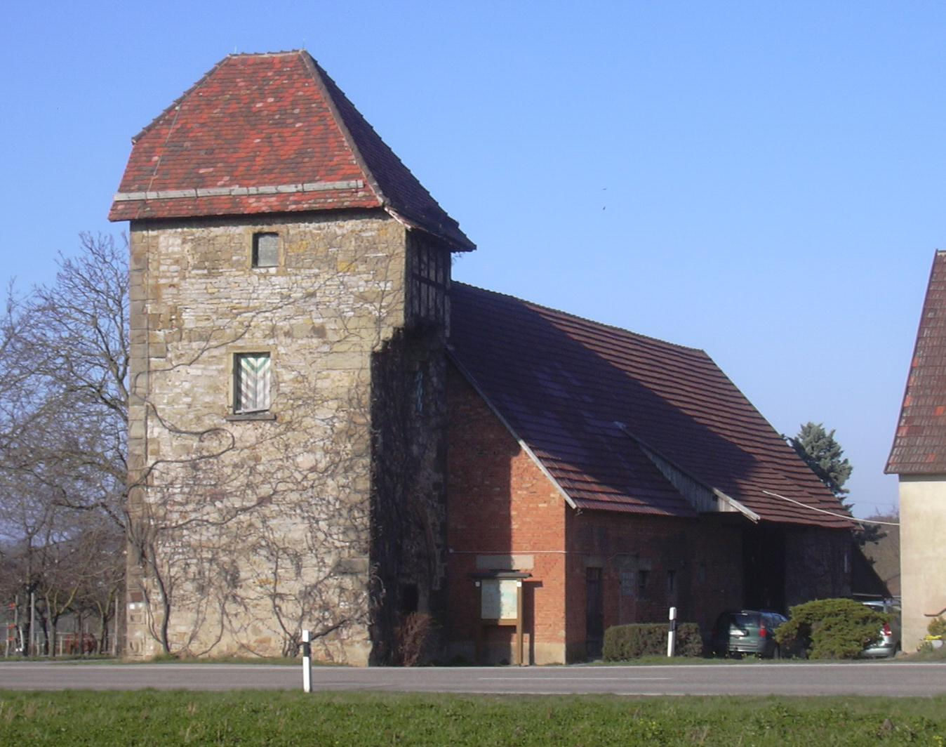 Former border and toll tower near Lauffen, Germany